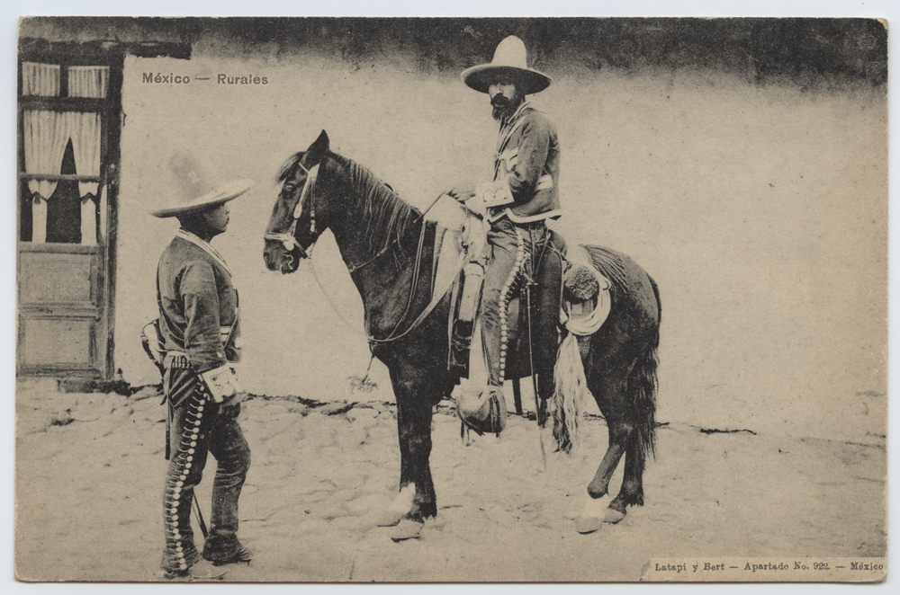 Title: Mexico - Rurales. Creator: Briquet, Abel Contributors: Latapi y Bert (publisher) Date: ca. 1913 Part Of: American border troops and the Mexican Revolution Place: State of Mexico, Mexico Physical Description: 1 photographic print (postcard): gelatin silver; 9 x 14 cm File: ag1982_0015_090c_rurales.jpg Rights: Please cite DeGolyer Library, Southern Methodist University when using this file. A high-resolution version of this file may be obtained for a fee. For details see the web page. For other information, . For more information and to view the image in high resolution, see: View the Mexico: Photographs, Manuscripts, and Imprints Collection